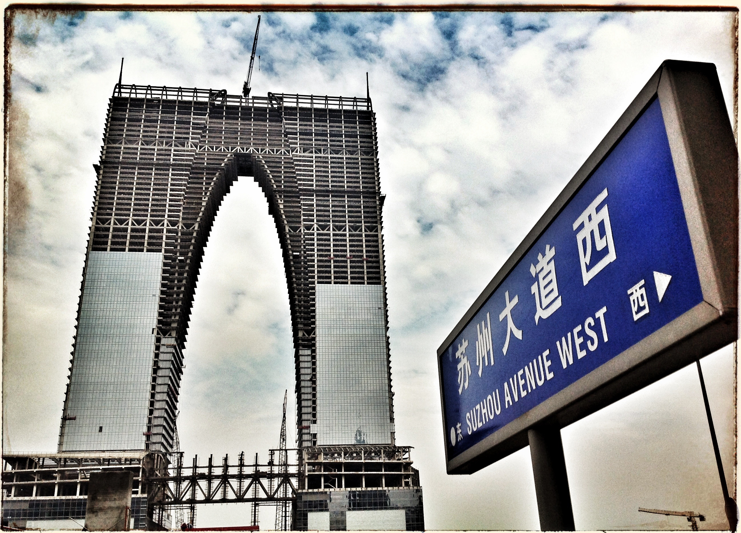 Gate of the orient in Suzhou (China) taken on June 2nd 2013.